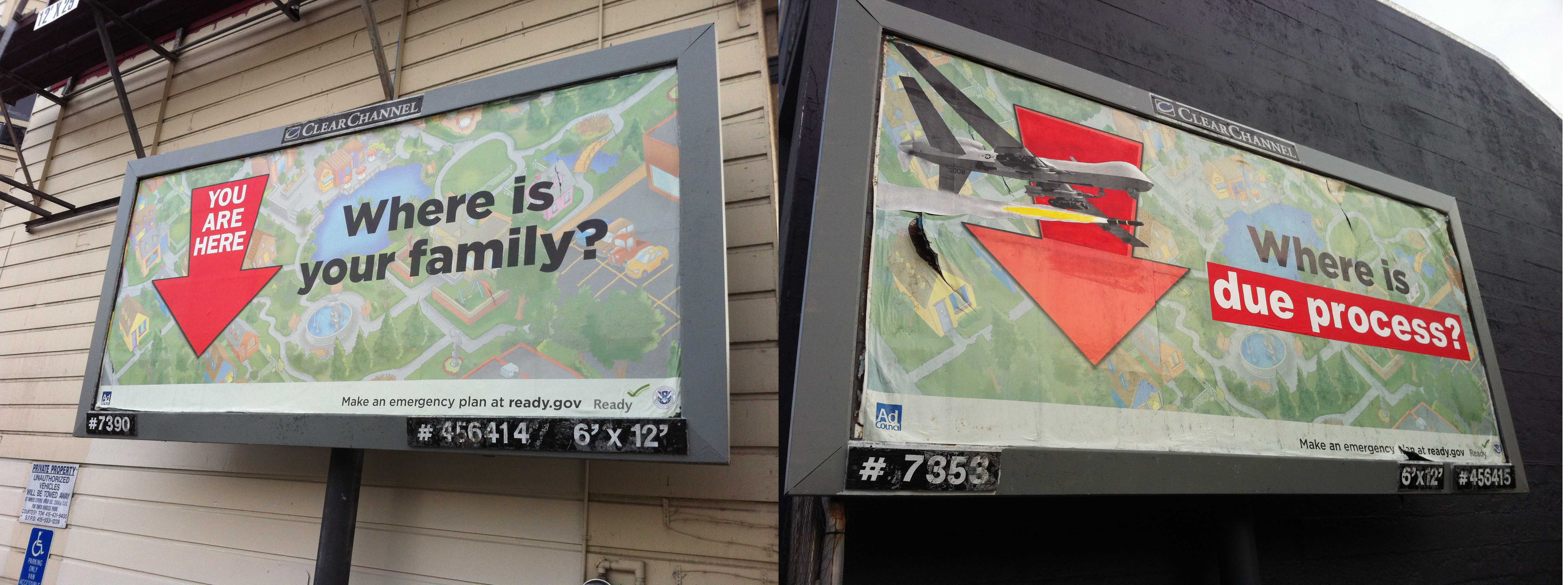 2 images of the same billboard published by designed to promote home safety, one has been vandalized and is an example of subvertising (subversive vandalism of advertising).